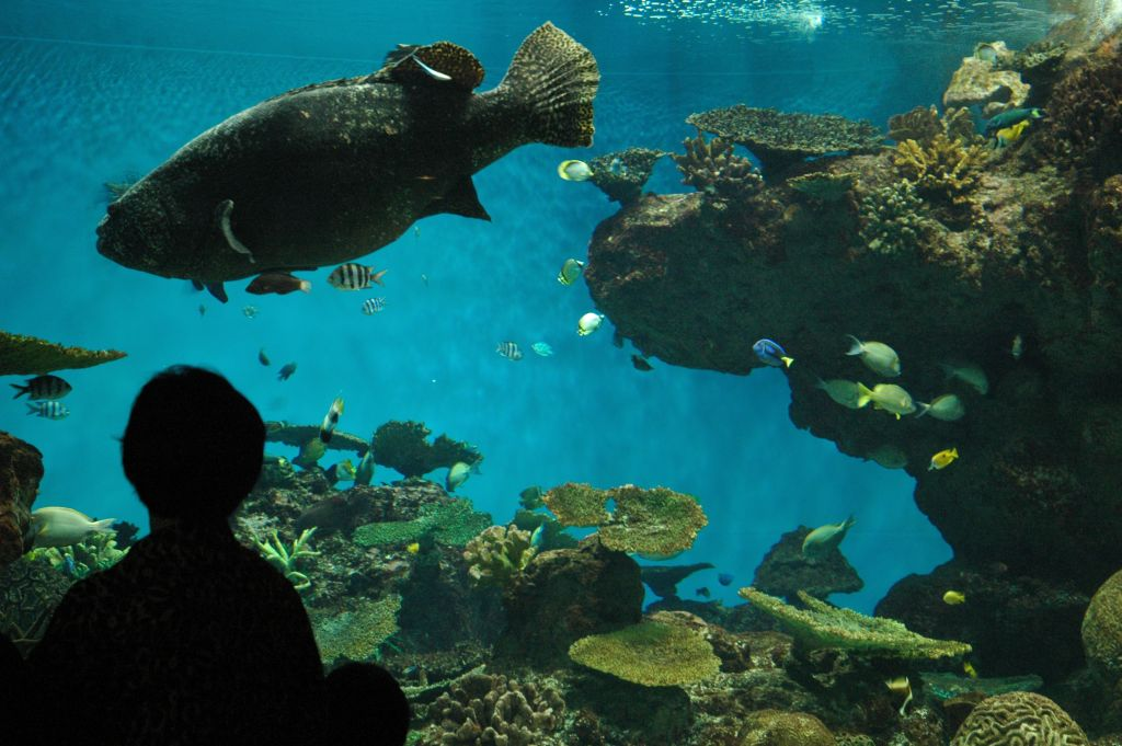 Coral reef tank at Kagoshima Aquarium